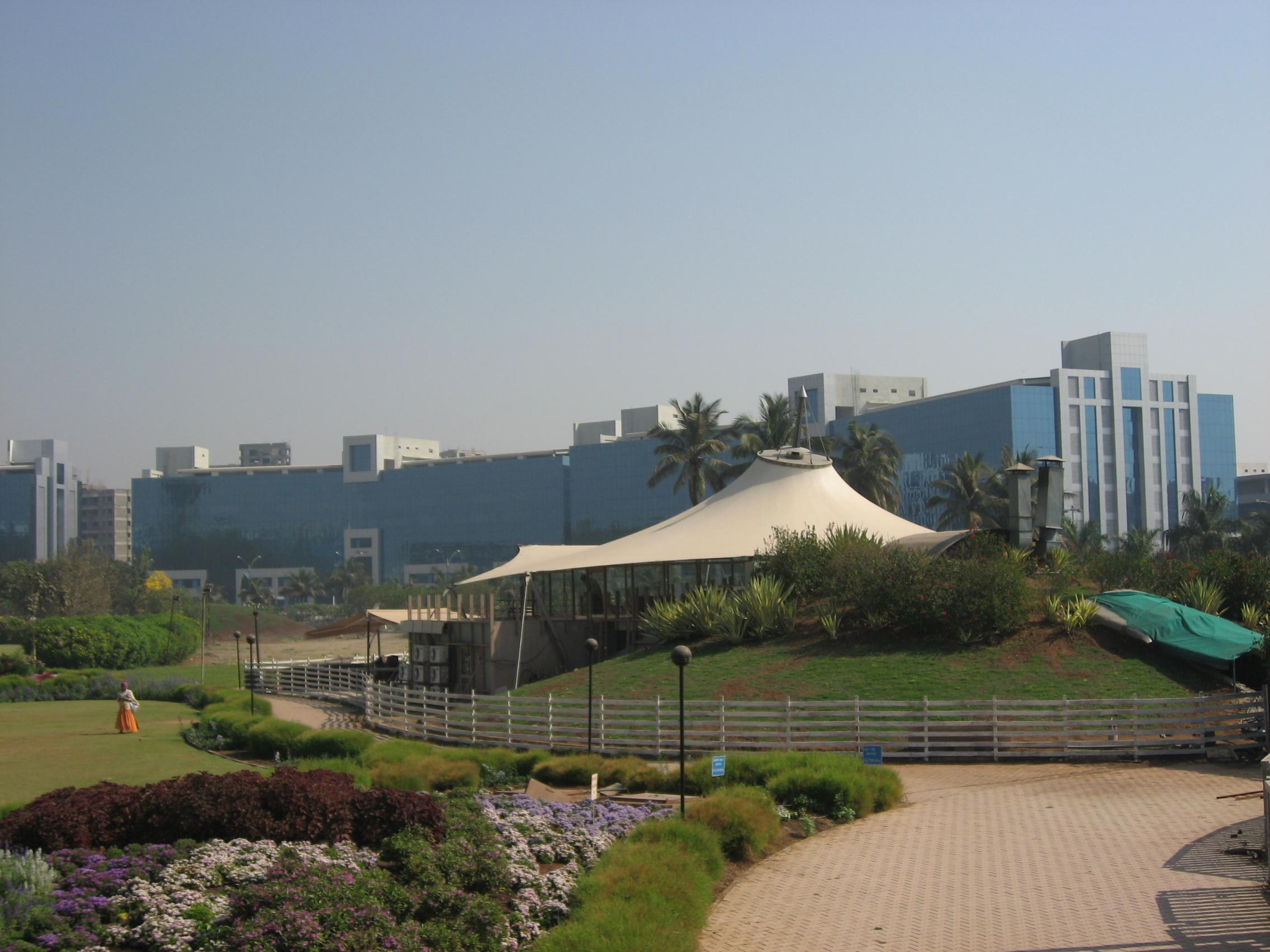 Cybercity IT park at Magarpatta City, Hadapsar, Pune